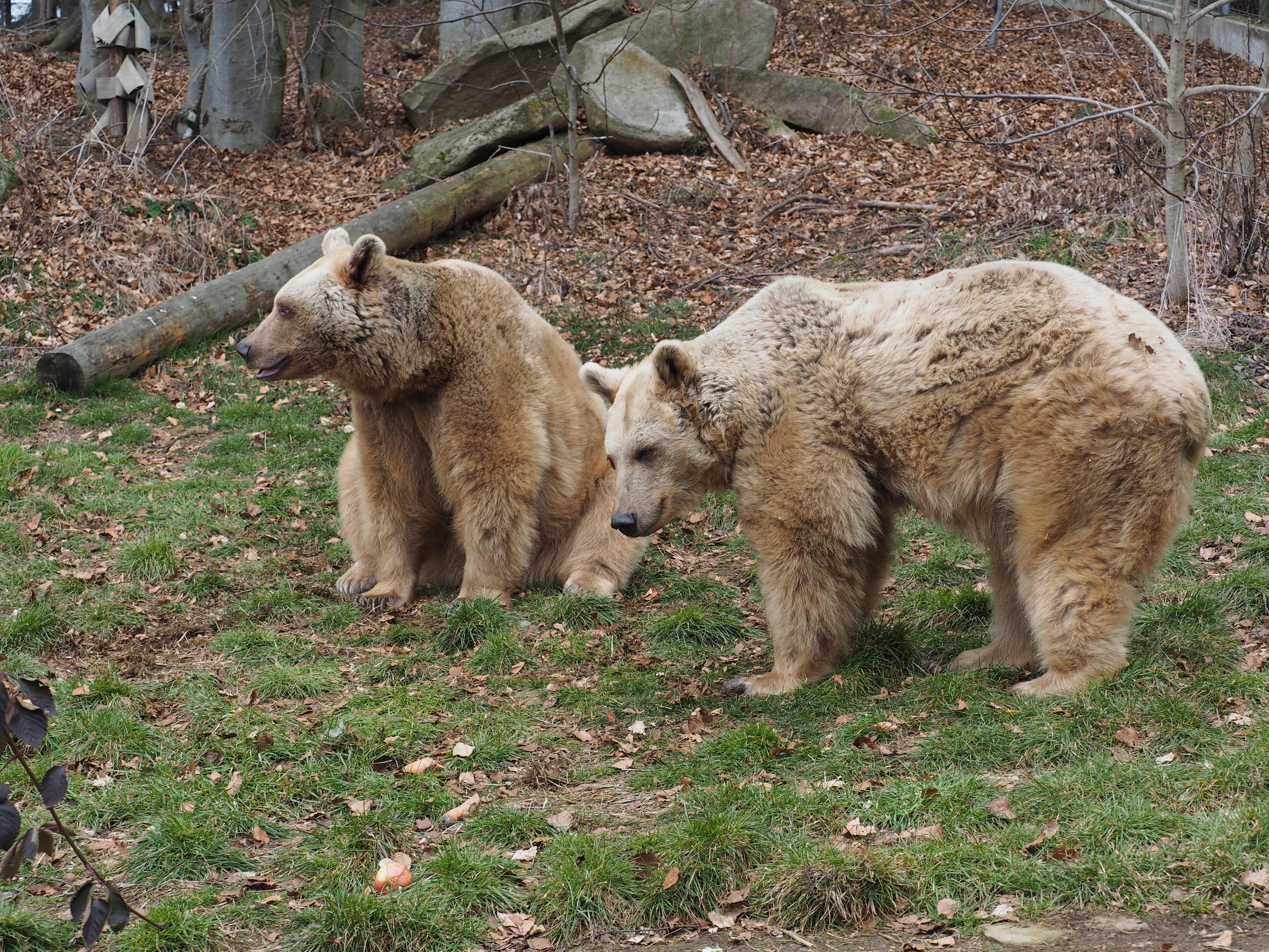 The Arbesbach bear sanctuary (2016)